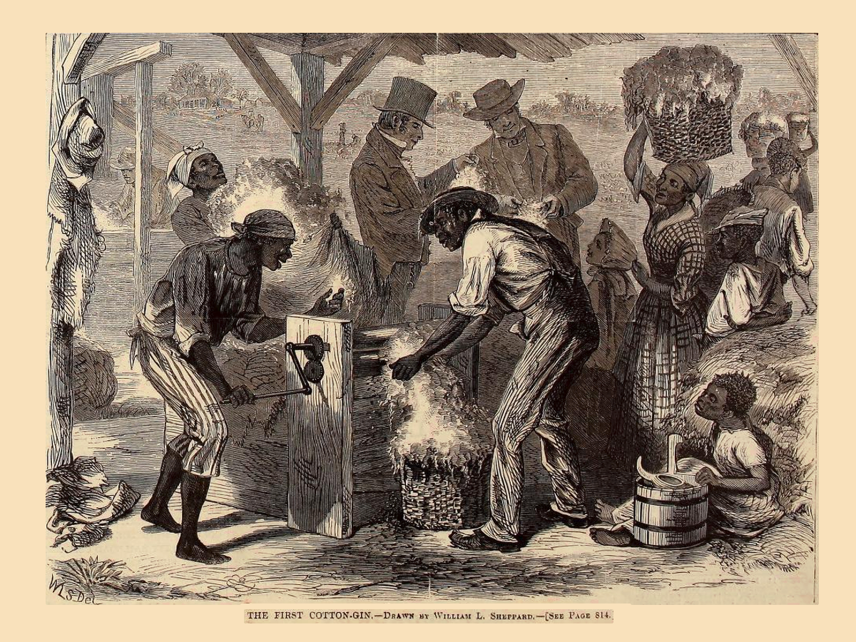 African Americans slaves using the First cotton-gin, 1790-1800, drawn by William L. Sheppard. Illustration in Harper's weekly, 1869 Dec. 18, p. 813. Harpers Weekly's illustration depicting event of some 70 years earlier.The illustration is of a Roller Cotton Gin and not an illustration of a Whitney Spike Gin or Holmes Saw Gin. First use of the cotton gin - Our engraving on page 813 represents the primitive cotton-gin, which preceded the saw-gin invented by Eli Whitney toward the close of last century. This simple contrivance consisted of two cylinders revolving in opposite directions, which admitted the fibre readily but prevented the passage of the seed and larger "trash", but not so thoroughly cleaning the cotton as Whitney's machine. The scene represented by our artist is the introduction of the gin on a plantation, amidst the excited curiosity of the negroes, who see in the machine a welcome relief from laborious process of cleaning the cotton by hand. Harper's weekly, 18 december 1869 The Library of Congress, Card 91784966, Call Number : Illus. in AP2.H32 Case Y [P&P], Reproduction number : LC-USZ62-103801 (b&w film copy neg.), Medium: 1 print : wood engraving. CREATED/PUBLISHED: 1869 Dec. 18.